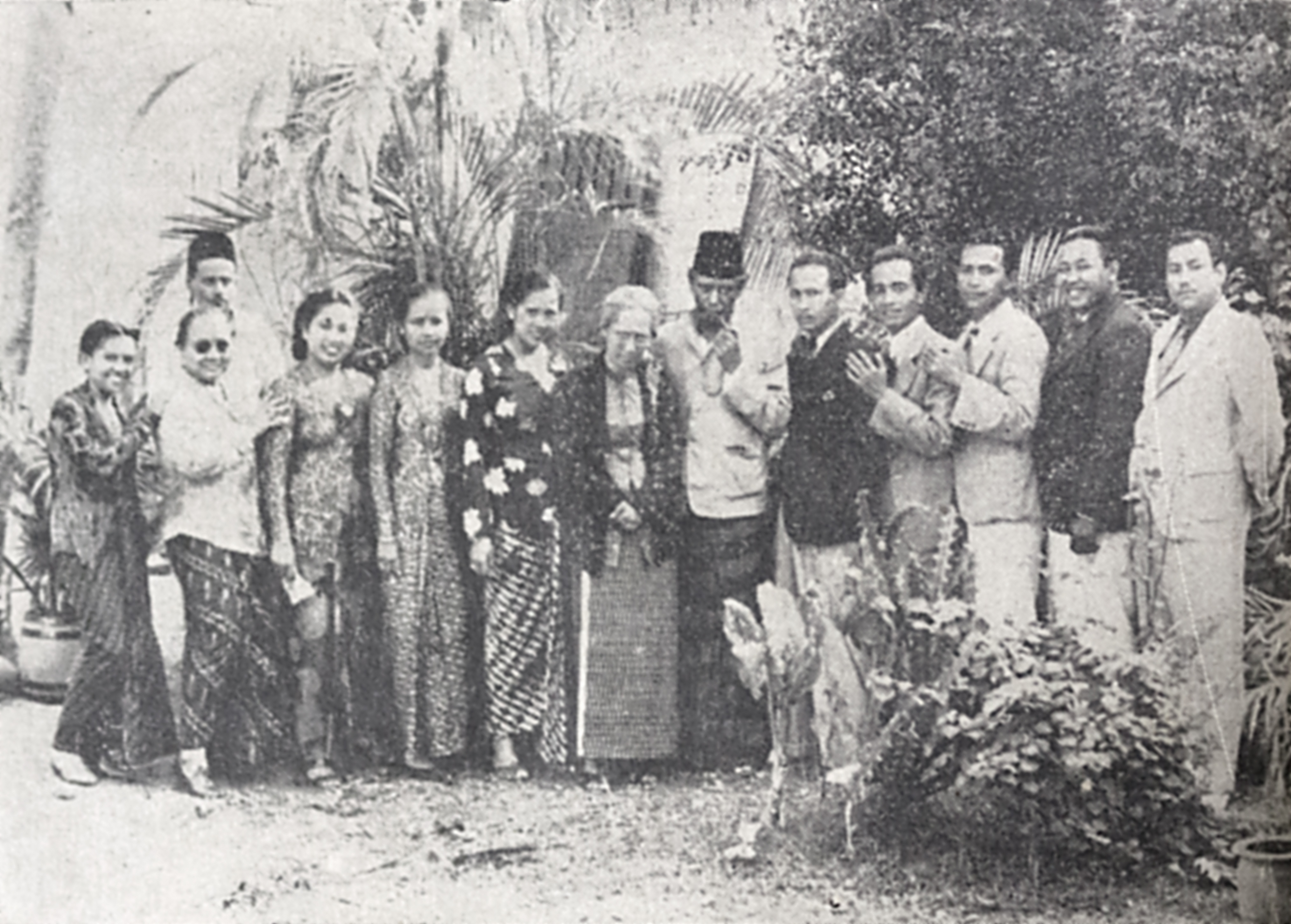 Cast of Air Mata Iboe: Left to right: Soerip, Soeina, Titing, Soelami, Ning-Nong Soelastri, Fifi Young, Ali Jugo, Rd. Ismail, Rd. Koesbini, A. Sarosa, S. Poniman, and Algedrie. The man behind Soeina is Alatas.